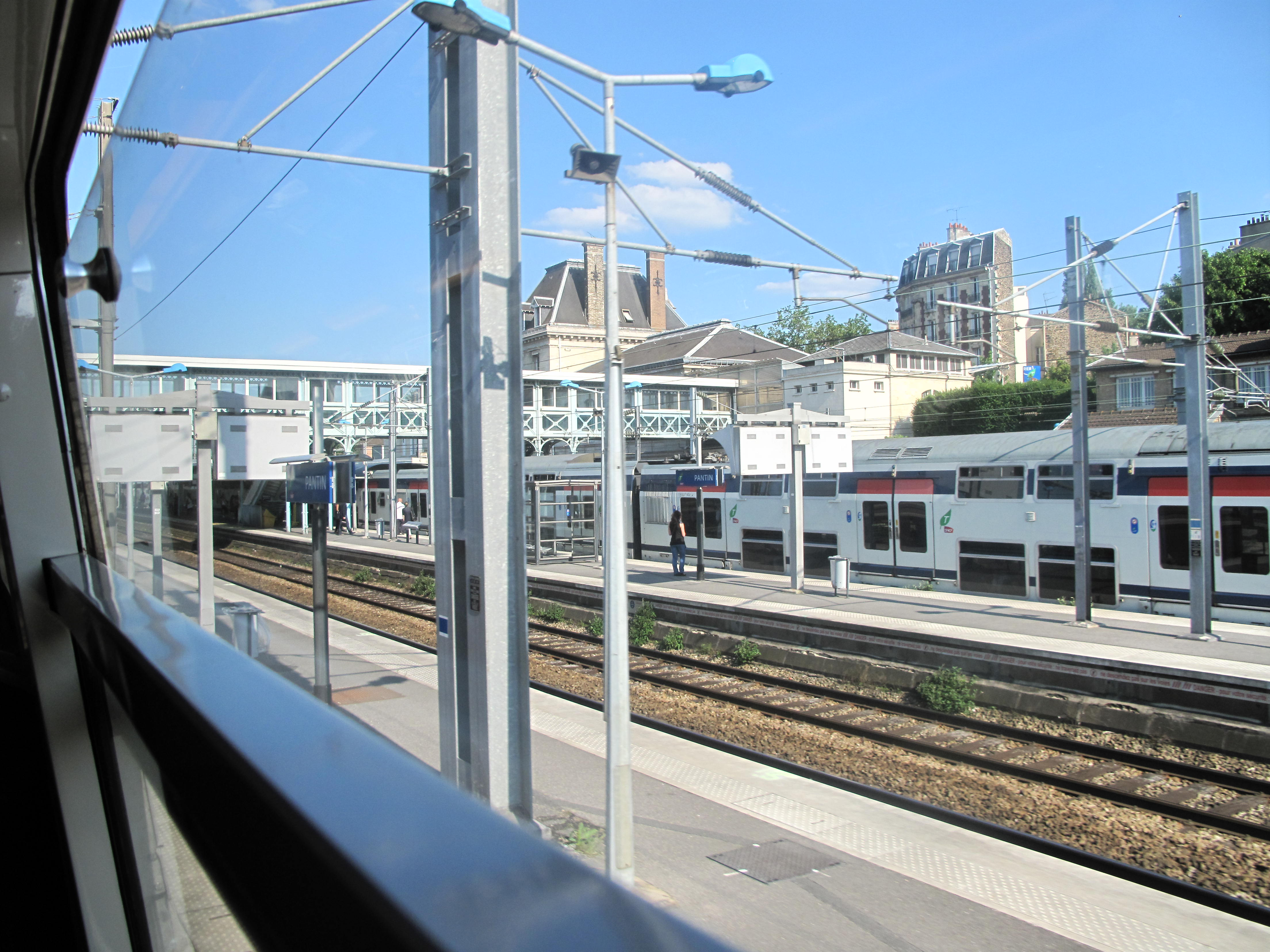 Pantin station (France) looking to Meaux